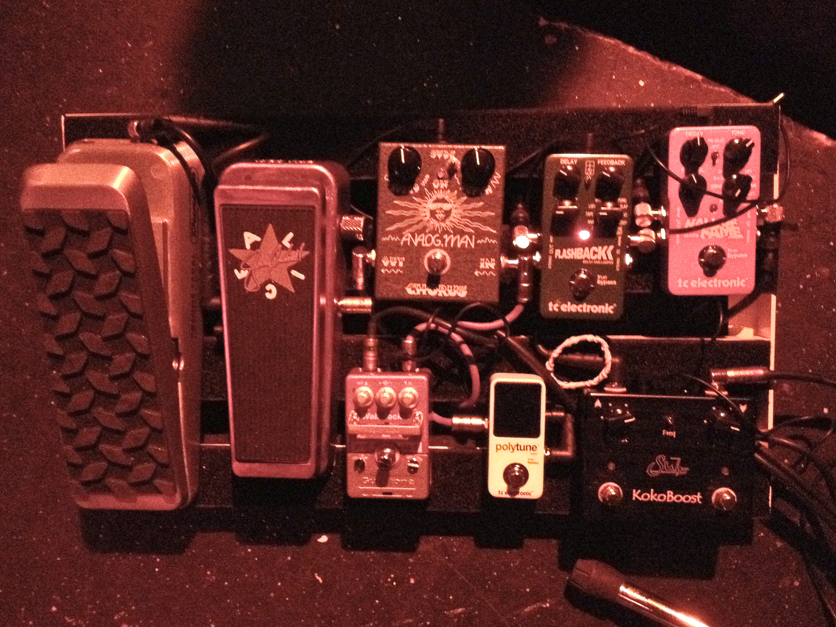 Guthrie Govan's Aristocrats pedalboard (U.S. tour) Dunlop DVP1 Volume Pedal Dunlop Jerry Cantrell Cry Baby Wah Analogman Chorus TC Electronic Flashback Delay TC Electronic Hall of Fame Reverb Guyatone WR-3 Wah Rocker TC Electronic PolyTune Mini Suhr KokoBoost